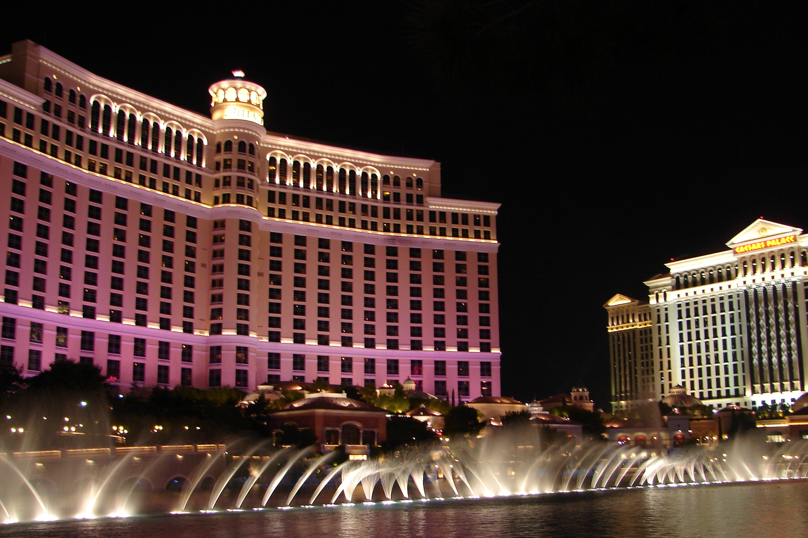 A view of Bellagio and Caesars Palace from the left side of Bellagio's fountains, at night (10 PM local time) in Las Vegas, Nevada, USA.